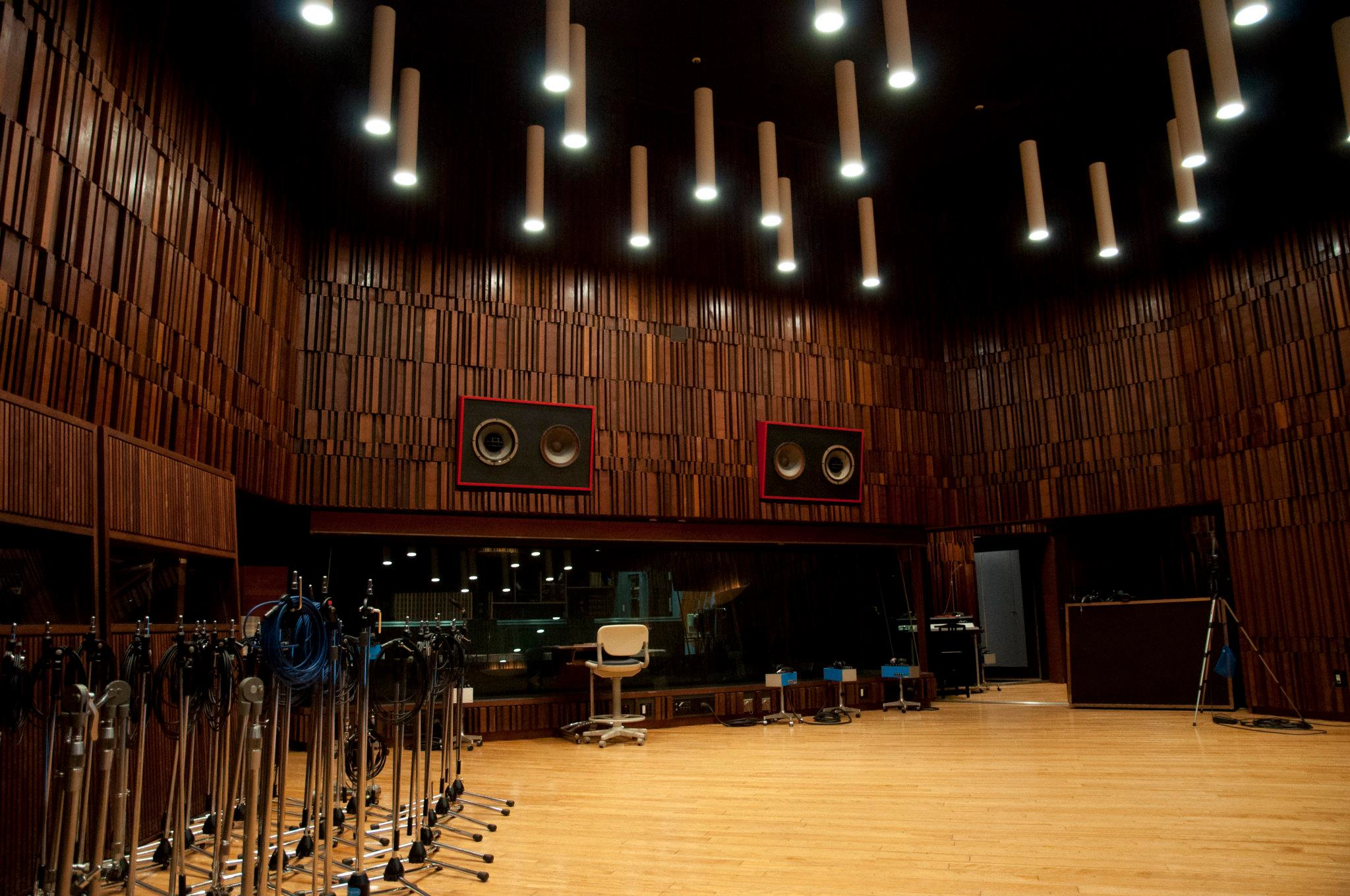 Studio View at Studio 1 from Right Booth Side